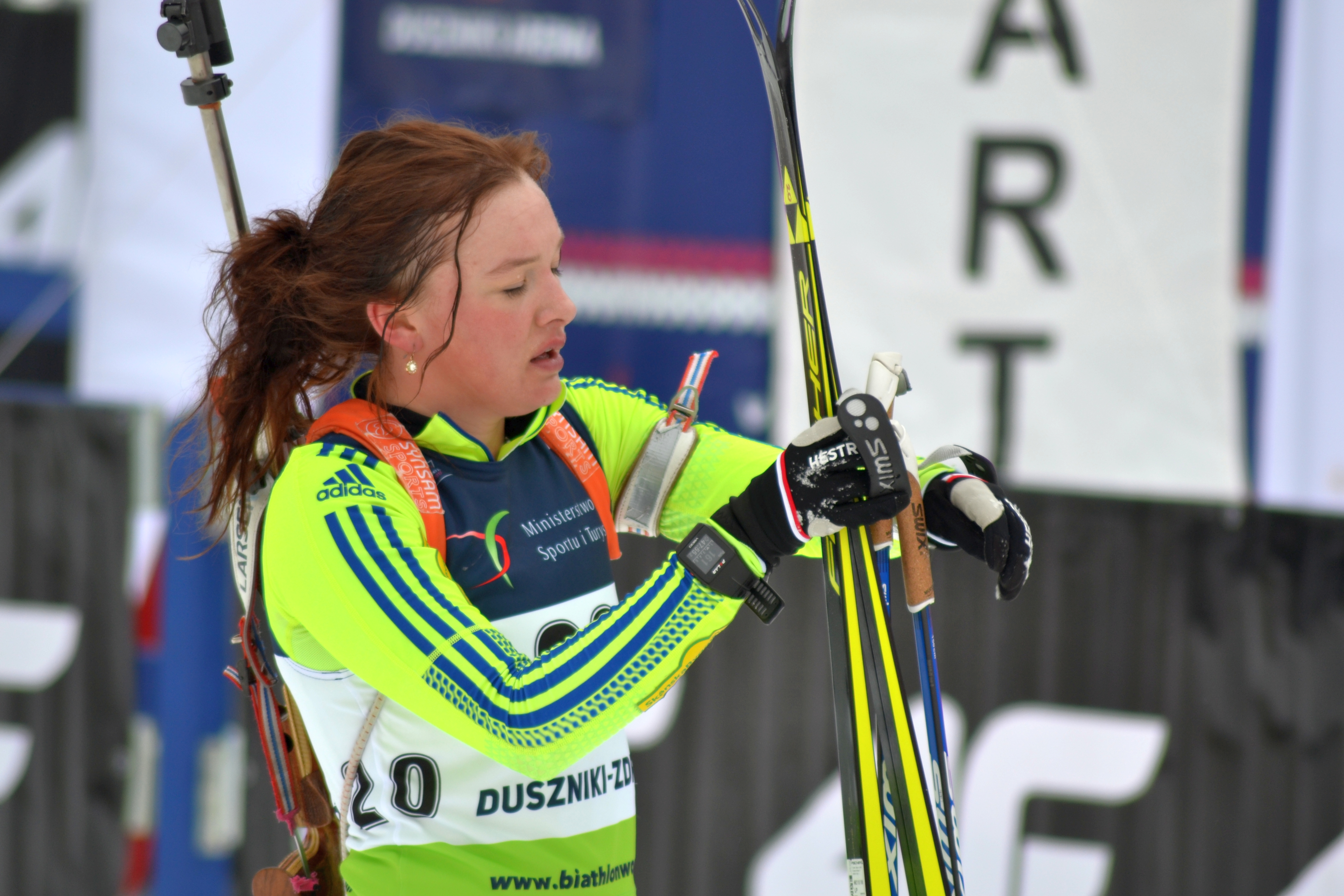 Open European Championships Biathlon 2017, Individual Women's race, held on January 25th.